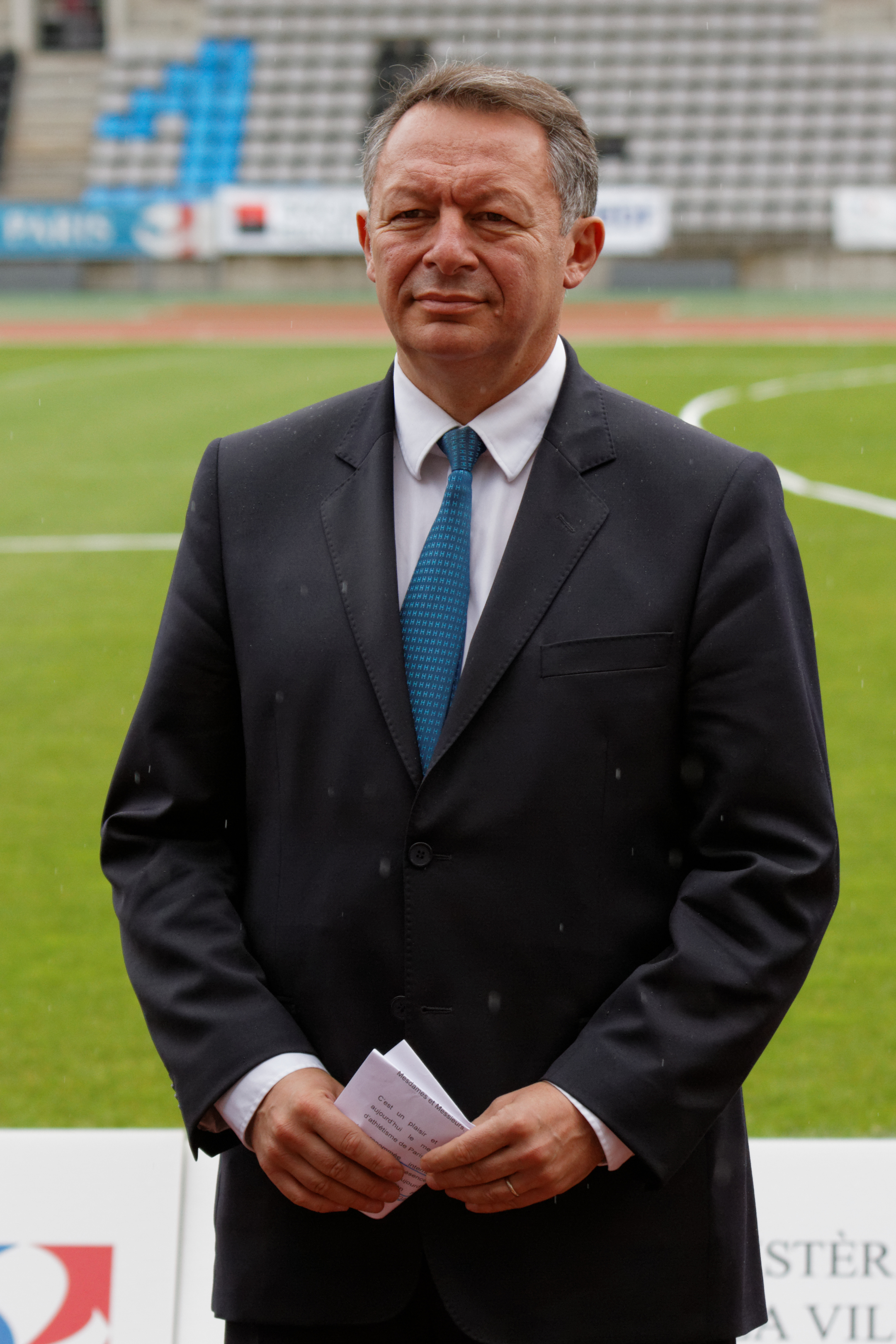 Thierry Braillard, minister delegate for Sports in the French government, Athletics Paralympic Meeting, June 4th, 2014, Charlety stadium.